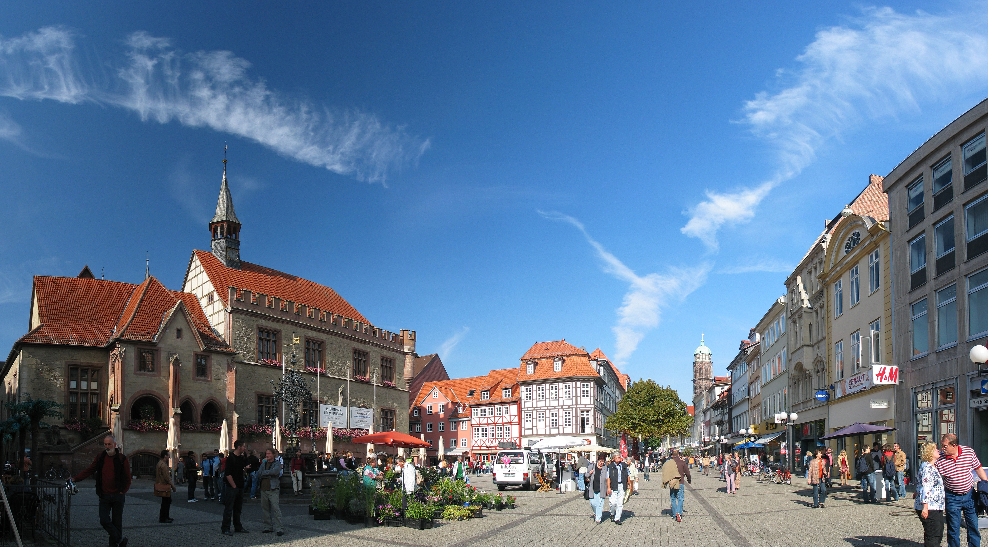 Goettingen marketplace with old city hall, Gaenseliesel fountain and pedestrian zone.